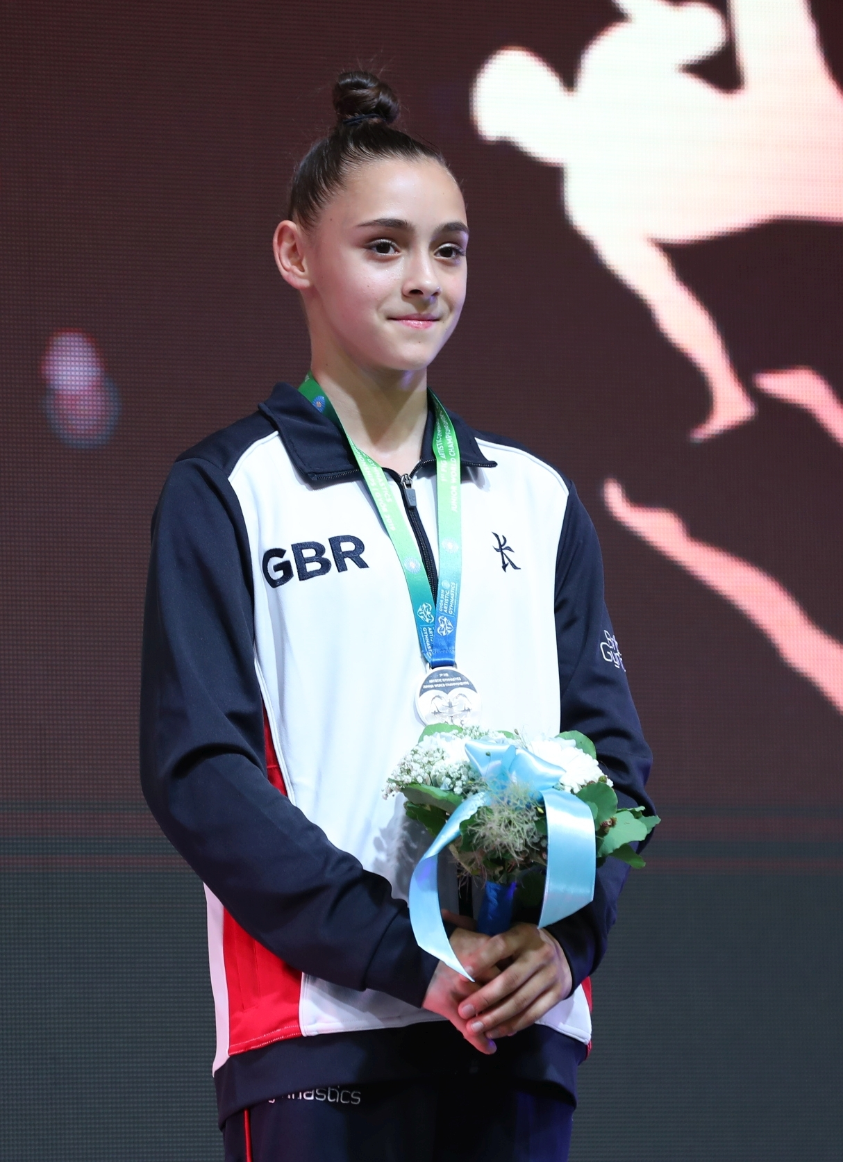 Vault victory ceremony during the girls' apparatus finals at the 1st FIG Artistic Gymnastics Junior World Championships on 29 June 2019 in Győr, Hungary. Depicted: Jennifer Gadirova.